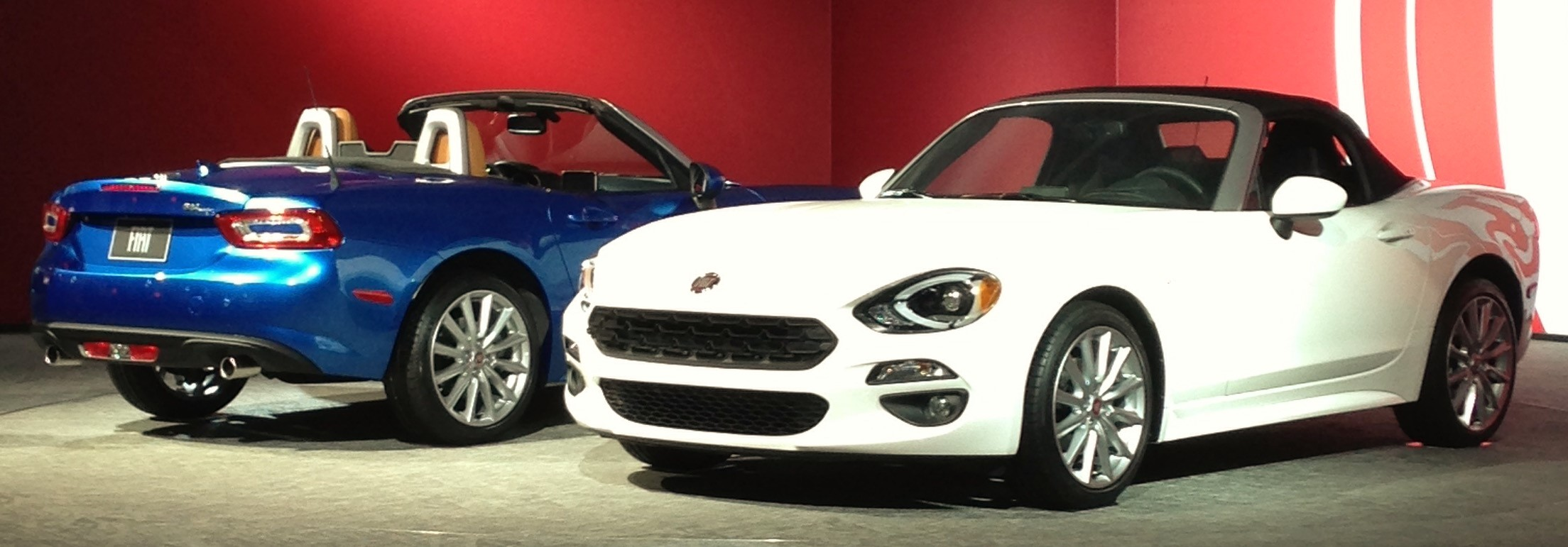 Fiat 124 Spider duo at their unveiling at the 2015 LA Auto Show